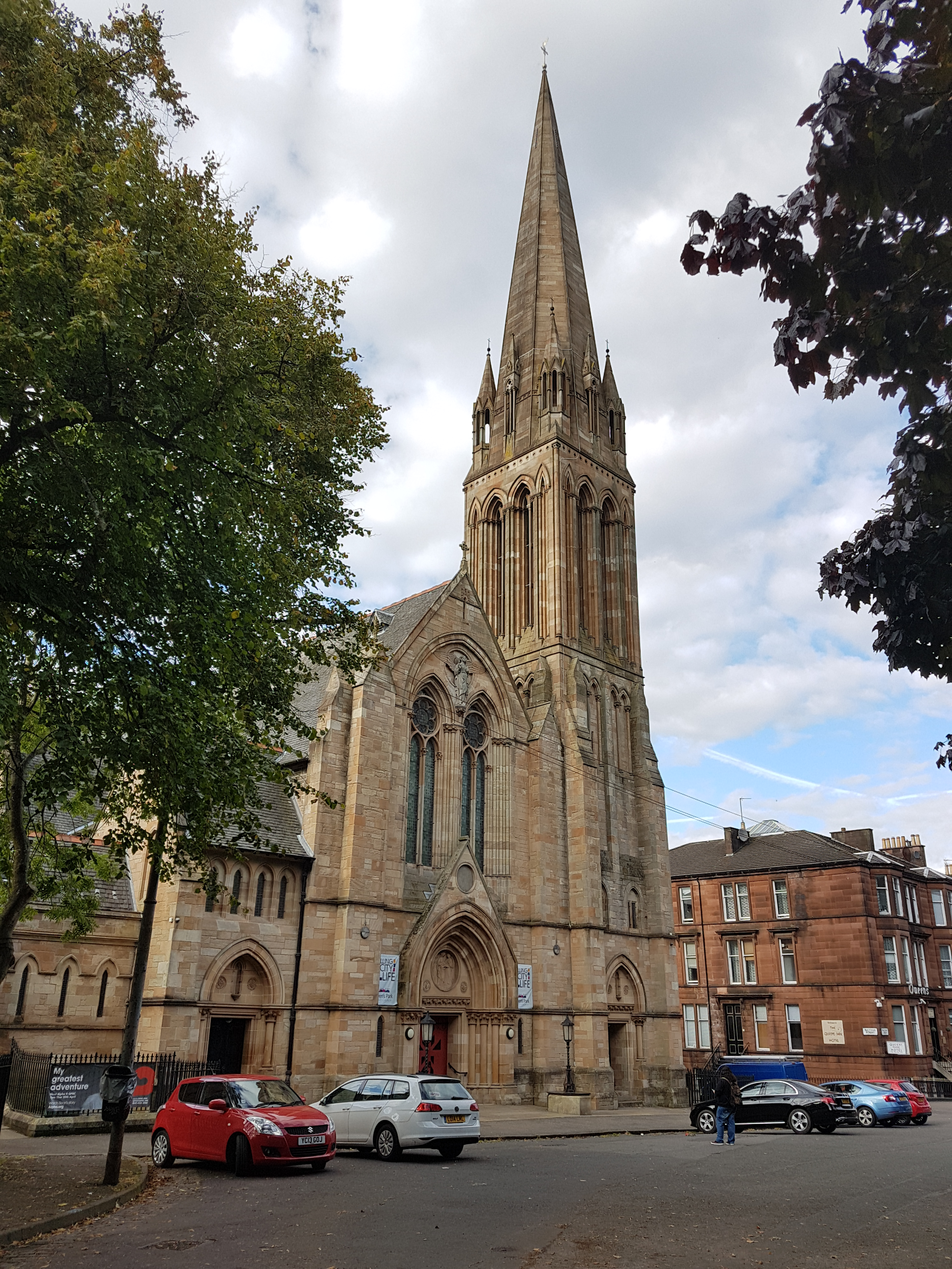 20 Balvicar Drive, Camphill Queen's Park Church Wikidata has entry Q17578059 with data related to this item.